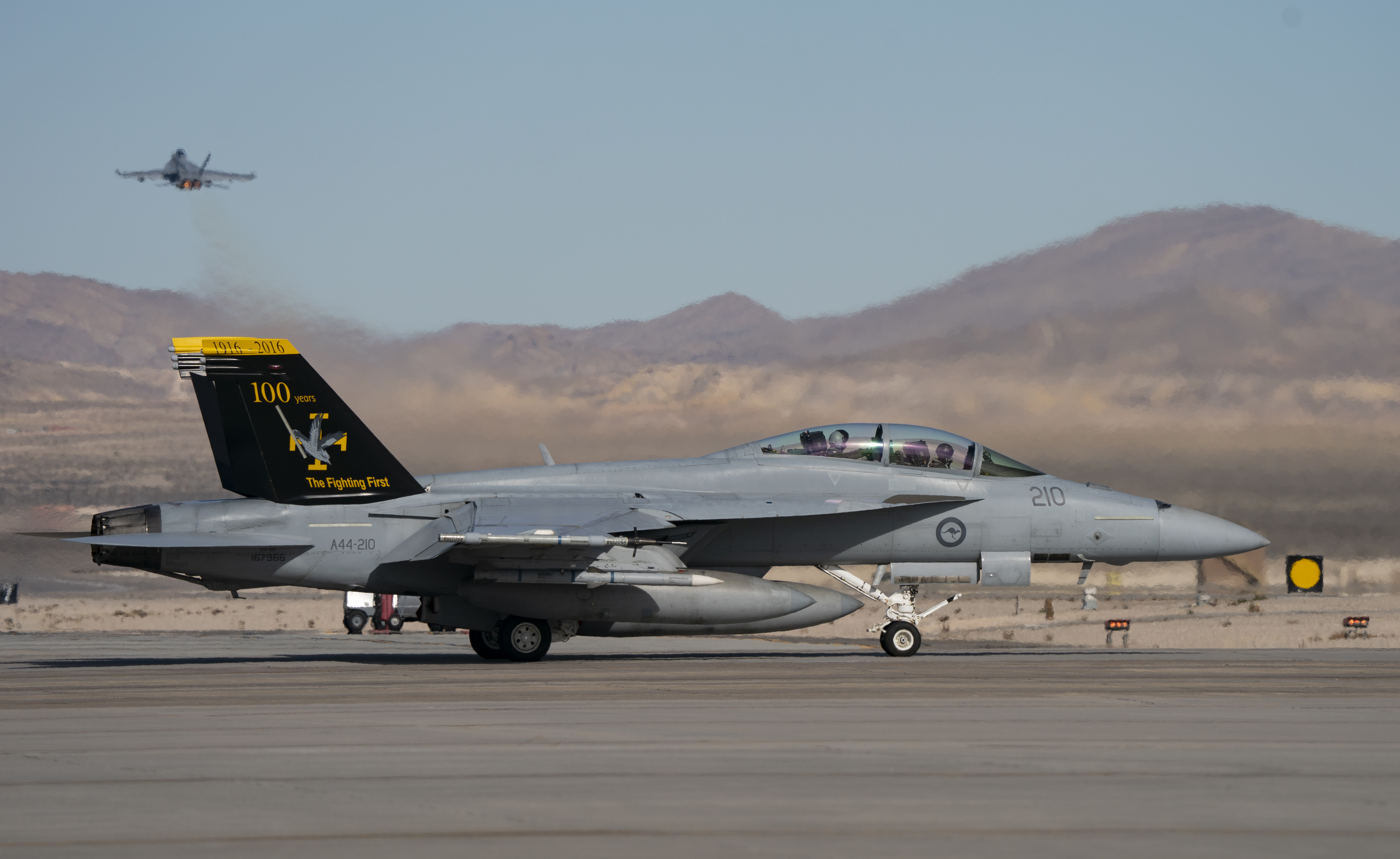 A Royal Australian Air Force F/A-18F Super Hornet multi-role aircraft assigned to 1 Squadron, RAAF Amberly, Australia, waits to take off for a mission during Red Flag 20-1 at Nellis Air Force Base, Nevada, Feb. 07, 2020.